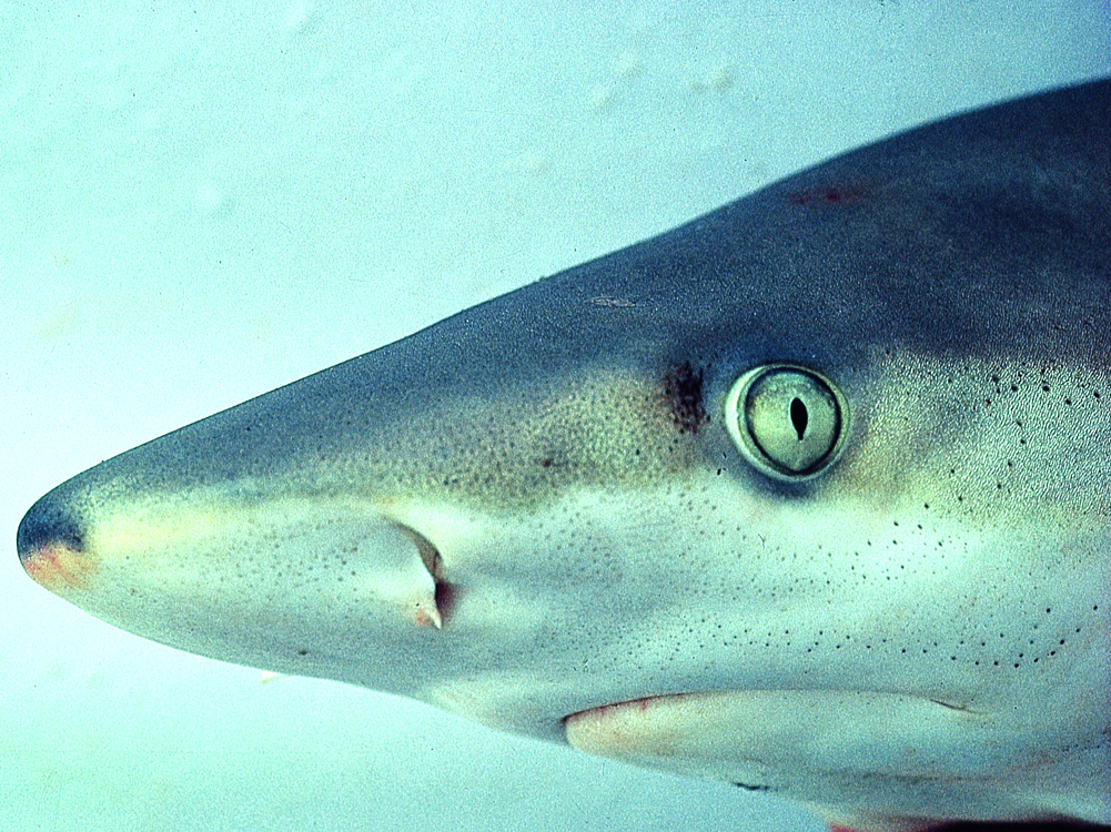 Blacknose shark (Carcharhinus acronotus)